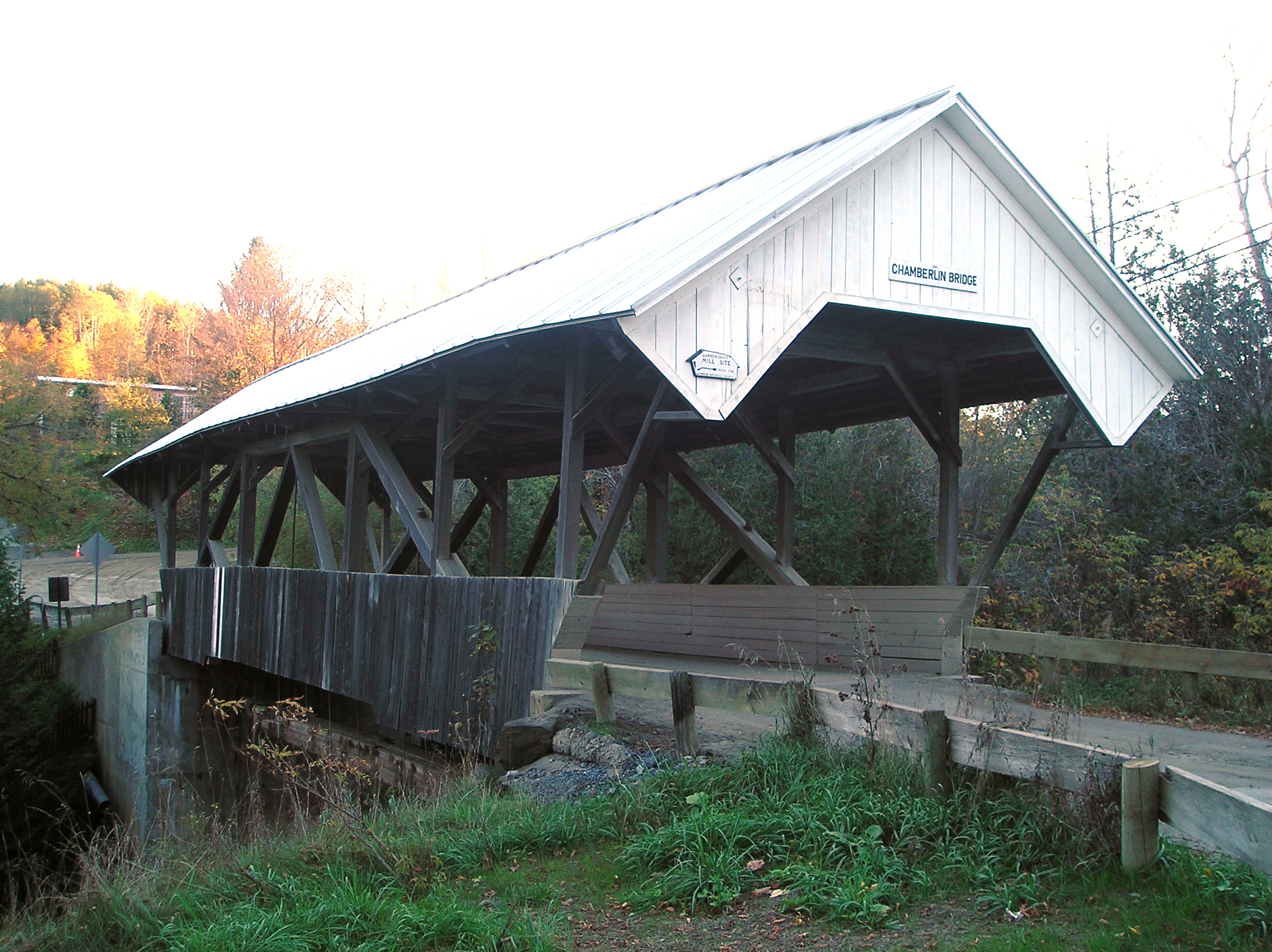 Chamberlin Mill (a/k/a Whitcomb) Covered Bridge, Lyndon, Vermont. Built by W.W.Heath, 1881 Queenpost, 66', spanning South Branch of Passumpsic River, York Street and Middle Road, off Route 5.